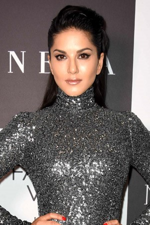 Sunny Leone on Day 5 of Lakme Fashion Week 2017